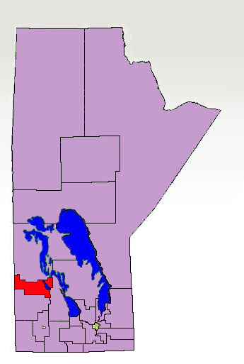 The 1998-2011 boundaries for the Dauphin-Roblin electoral district highlighted in red